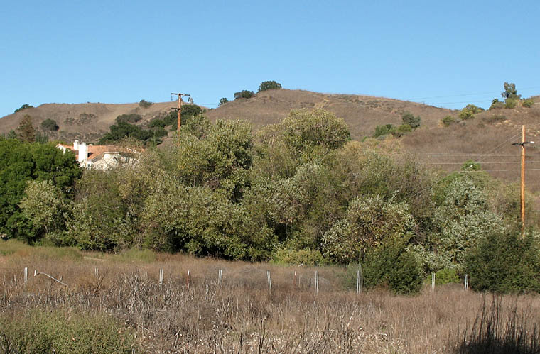 A stand of Salix laevigata at Rancho Sierra Vista/Satwiwa: Satwiwa Loop Trail, Santa Monica Mountains National Recreation Area, California, USA. NPS photo, no copyright.